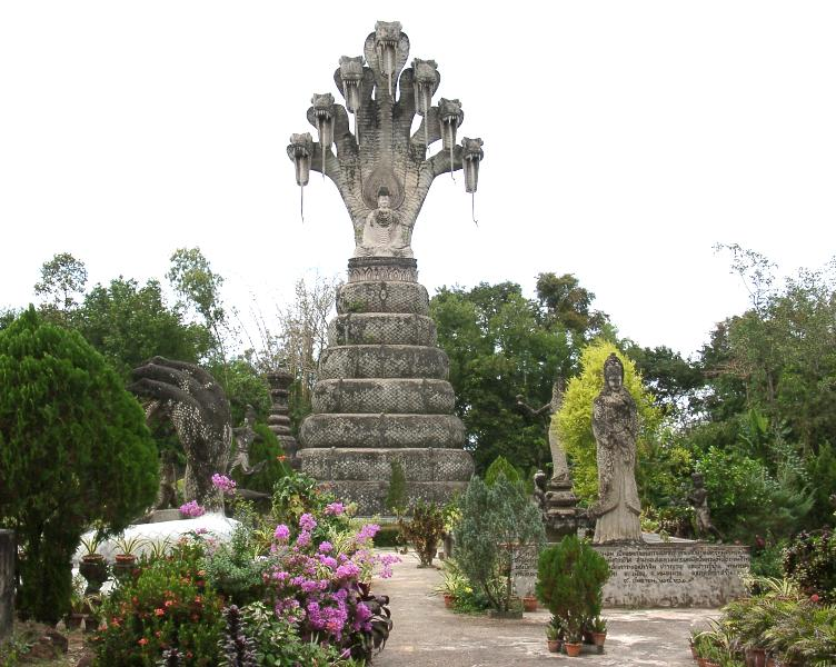 Sculpture in Sala Keoku near Nong Khai, northeastern Thailand